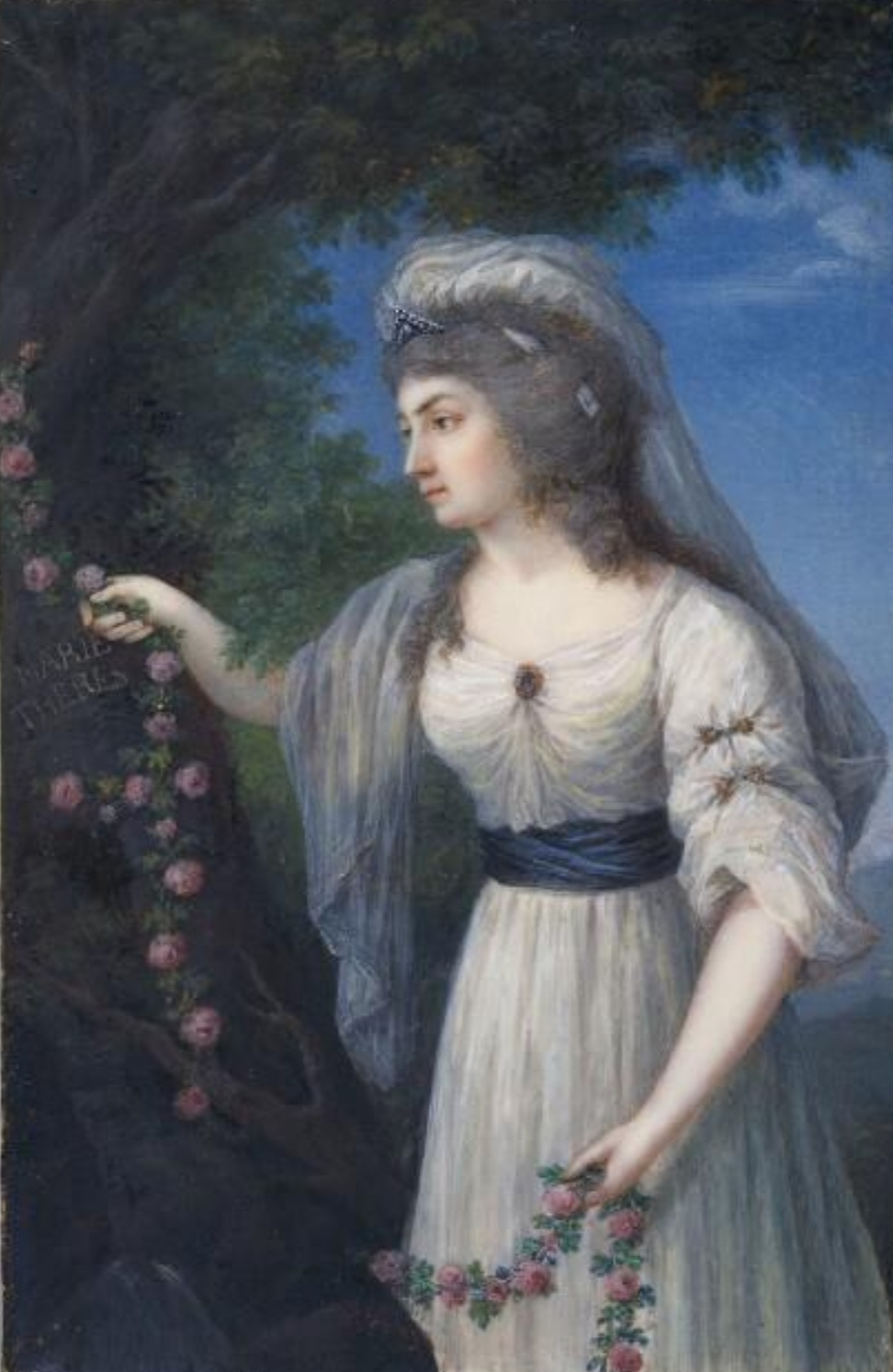 Portrait of Princess Louise of Hesse-Darmstadt (1761–1829)